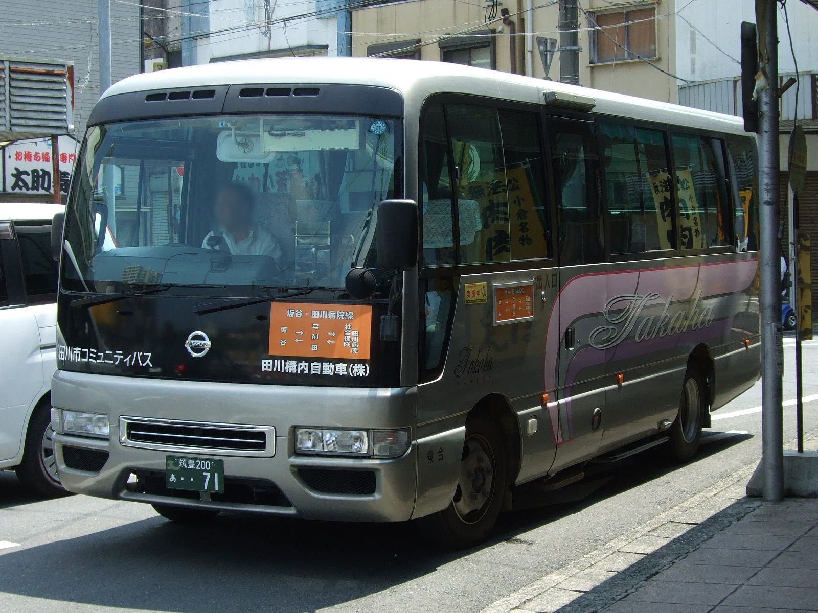 田川市コミュニティバス / Tagawa City community bus